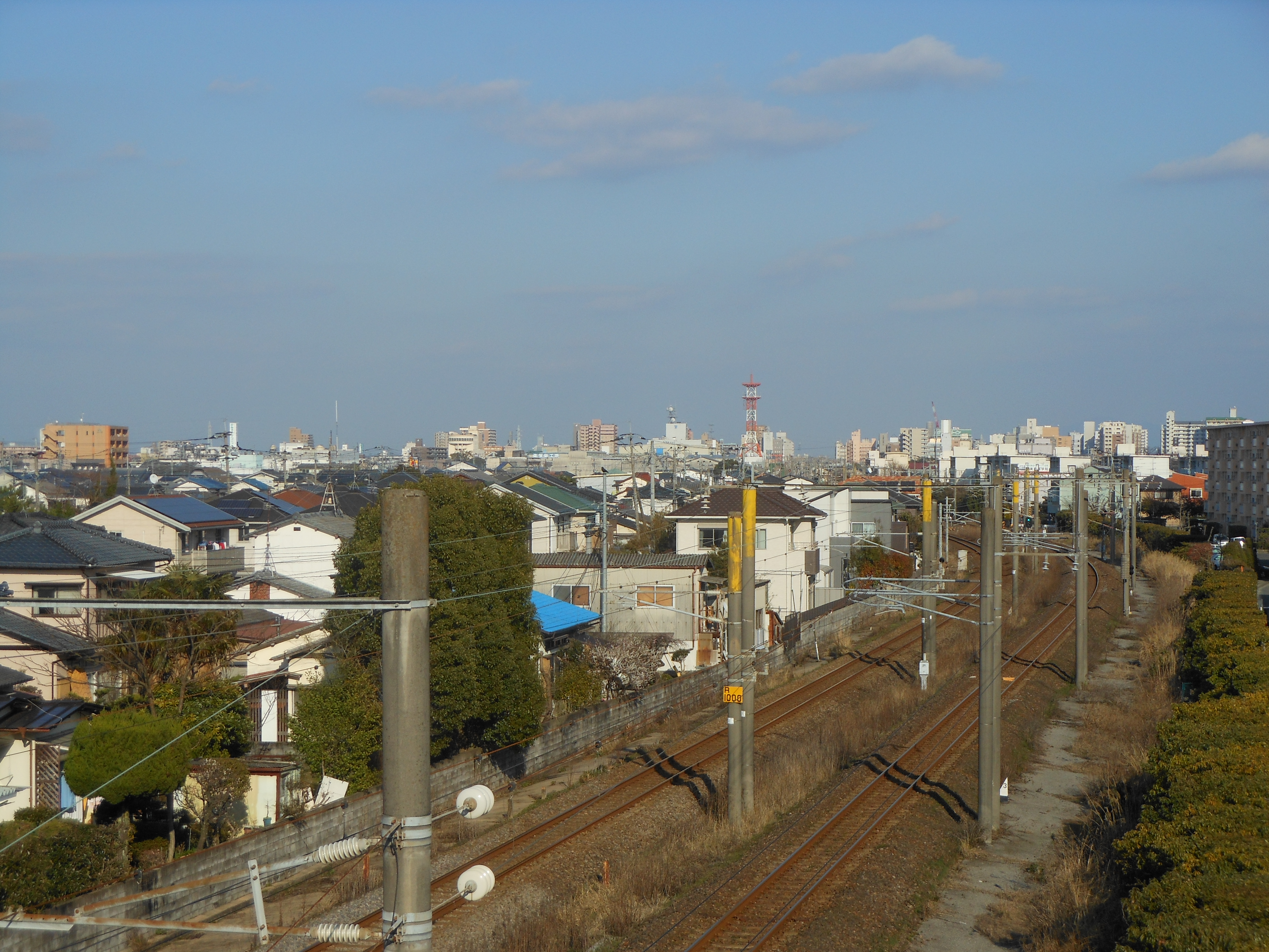 Cityscape of Saga City center from a bridge over JR Nagasaki Main Line (west direction).